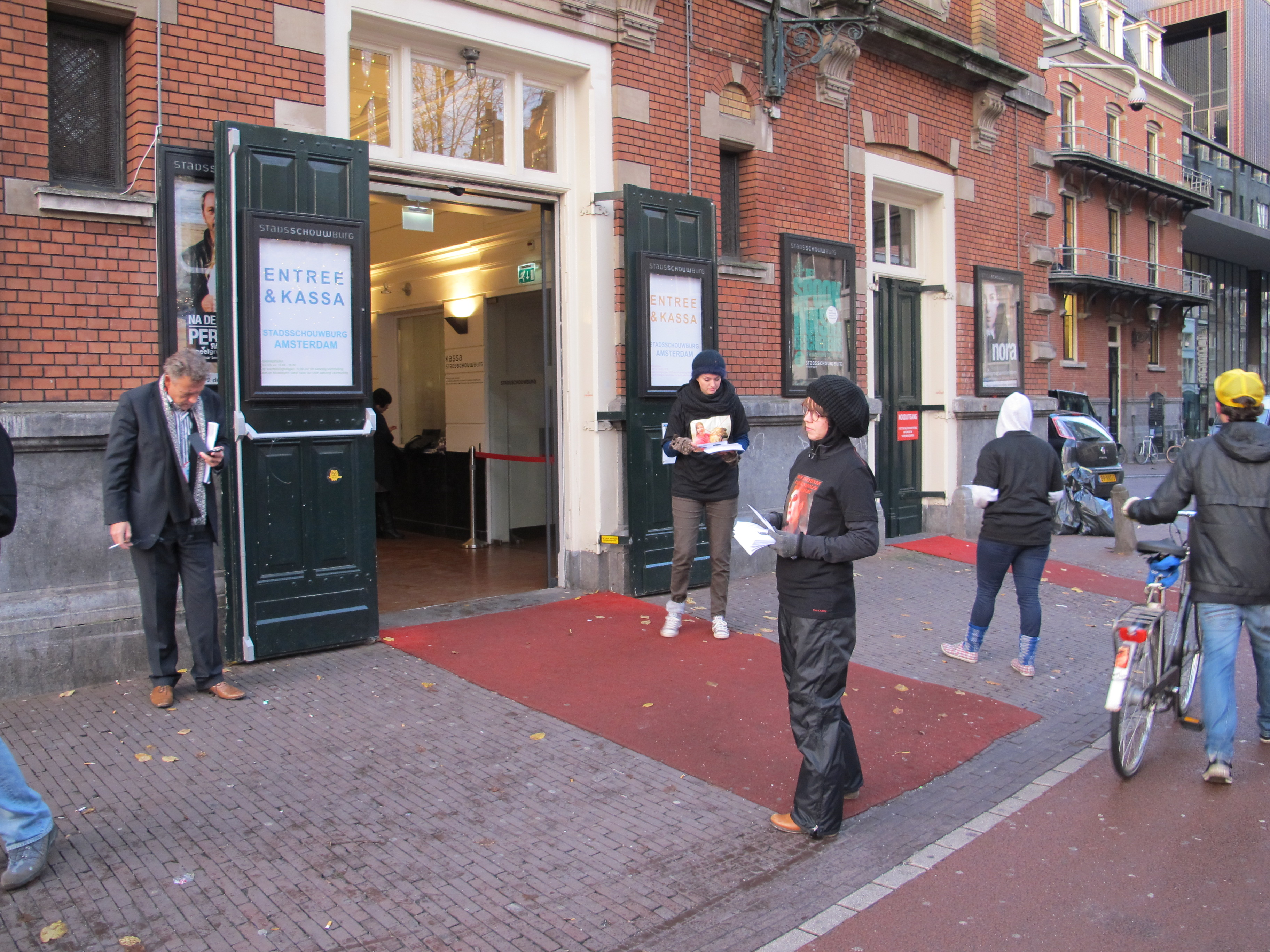 TINKEBELL protesters at TEDxAmsterdam